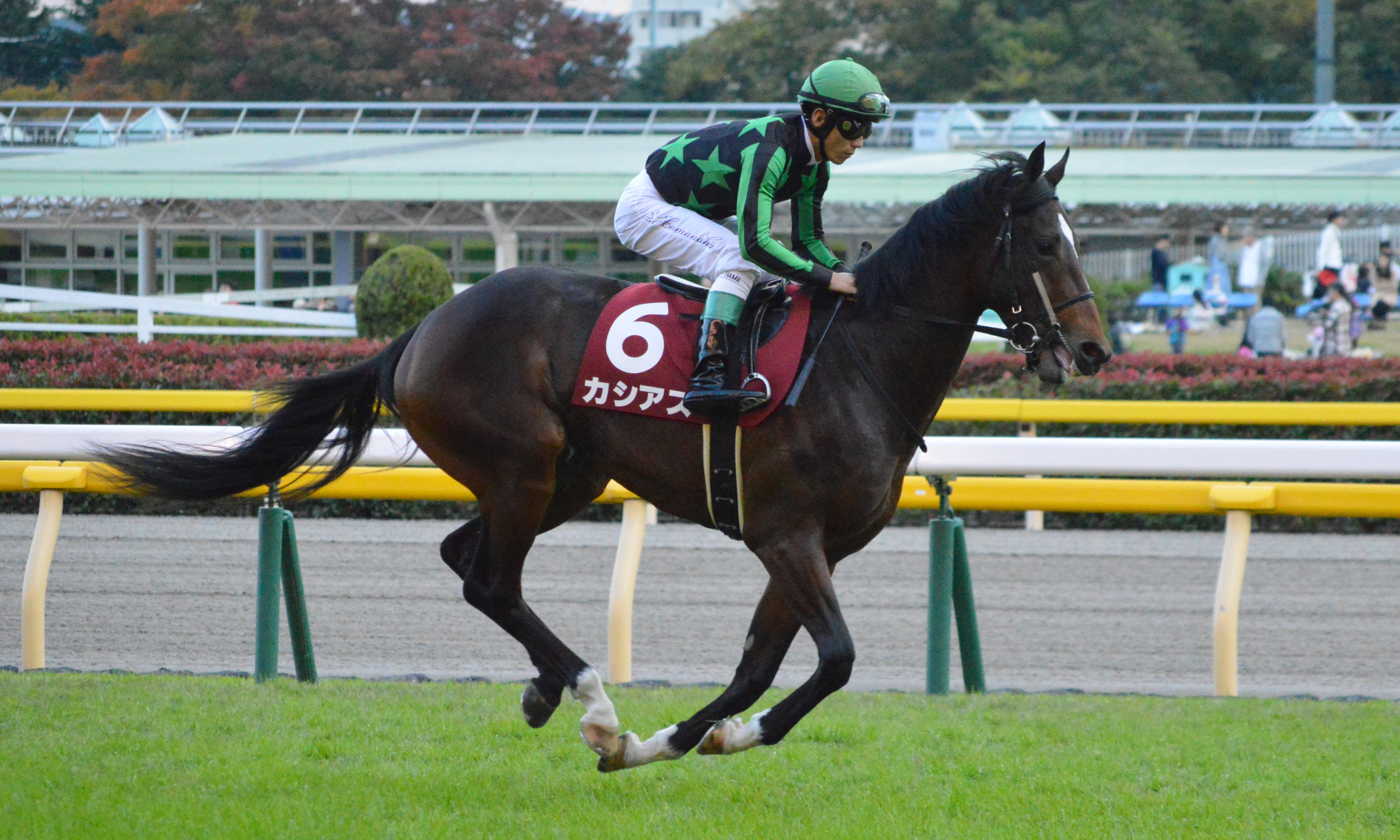 Japanese race horse Cassius at Tokyo racecourse. Tokyo (JPN) 4 Nov 2017 Keio Hai Nisai Stakes (Grade 2) (2yo) (Turf) 7f Firm RankHorse NameOddsAgeWgtTrainerJockey1stTower Of London (JPN)4/5FC28-9Kazuo FujisawaChristophe-Patrice Lemaire2ndCassius (JPN)129/10C28-9Hisashi ShimizuSuguru HamanakaOthers are omitted. (11 horses entered in a race.)